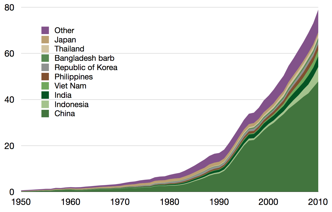 Global aquaculture production by country in million tonnes, 1950–2010, as reported by the FAO. Based on data sourced from the FishStat database